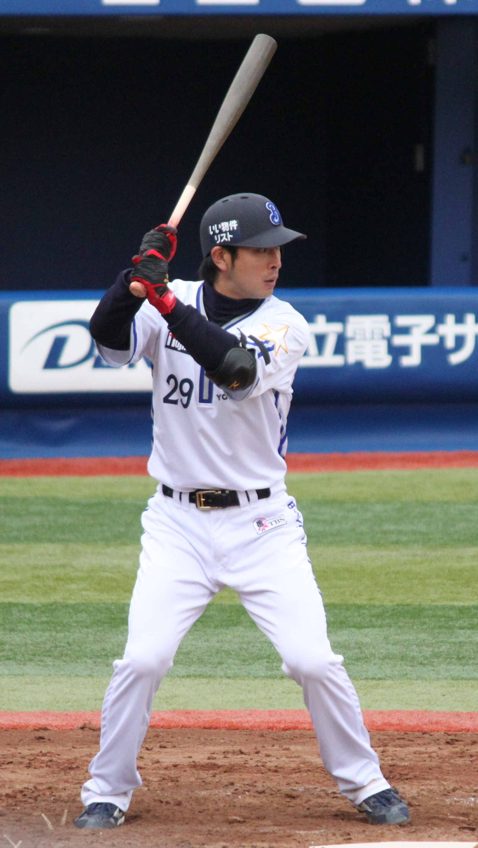 Shinji Niinuma, catcher of the Yokohama BayStars, at Yokohama Stadium.